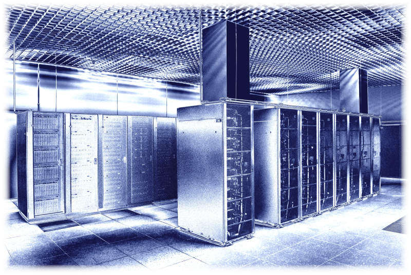 Artistic picture of Magerit Supercomputer housed by Supercomputing and Visualization Center of Madrid (CeSViMa), Technical University of Madrid (UPM)